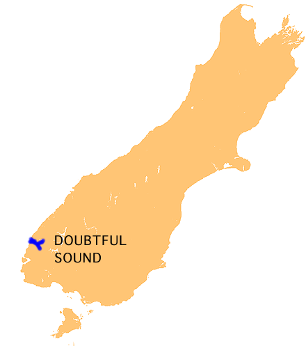 Location map of Doubtful Sound, New Zealand